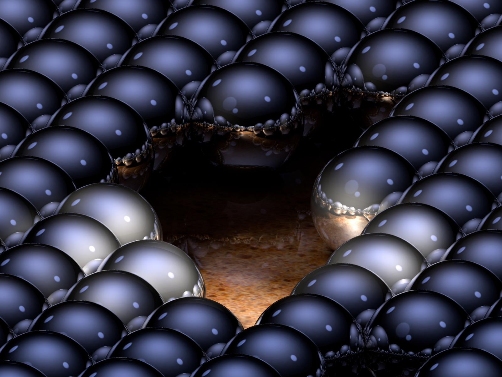 A computer-generated image is shown above. The settings in this ray-tracing allowed for up to 16 reflections per “ray”. Thus, multiple, “reflections of reflections” can be seen. Modeled and rendered using Ashlar Incorporated’s Cobalt on a PowerPC-based iMac running OS X.